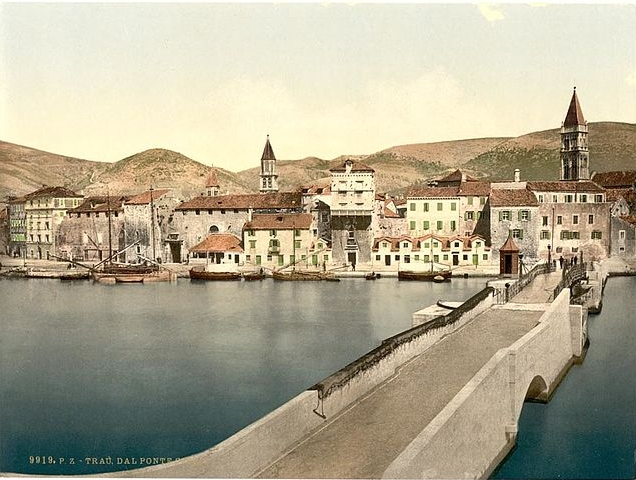 Traû the Ciero Bridge Dalmatia Austro-Hungary